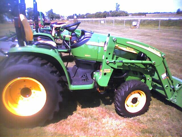 A modern John Deere Compact Utility Tractor showing a hybrid loader design that is partially curved but build in the more traditional two piece fashion.